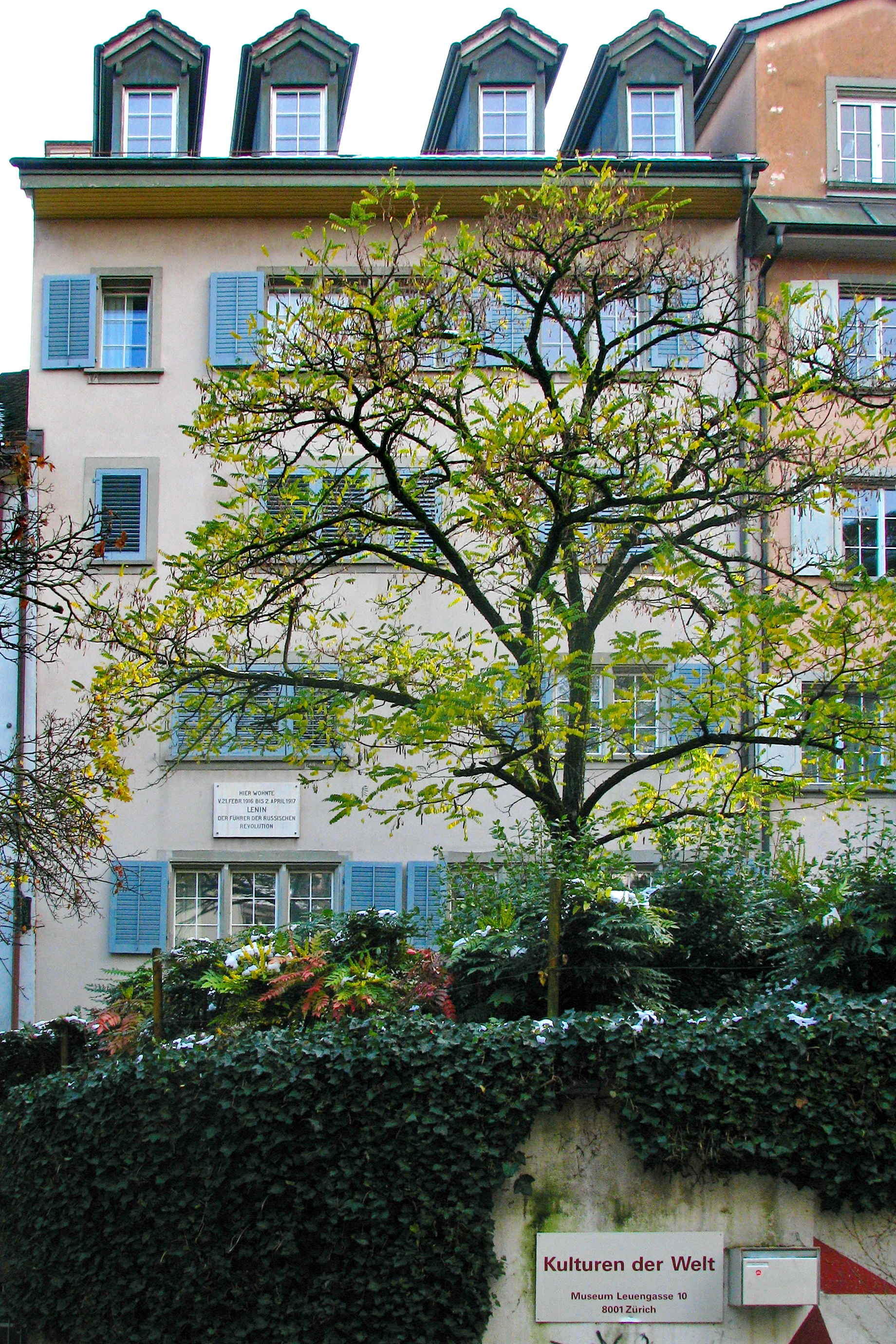 Zürich, Spiegelgasse 14 : The former home (21st Febr. 1916 - 2nd April 1917) of Wladimir Iljitsch Uljanow Lenin (* 1870; † 1924).